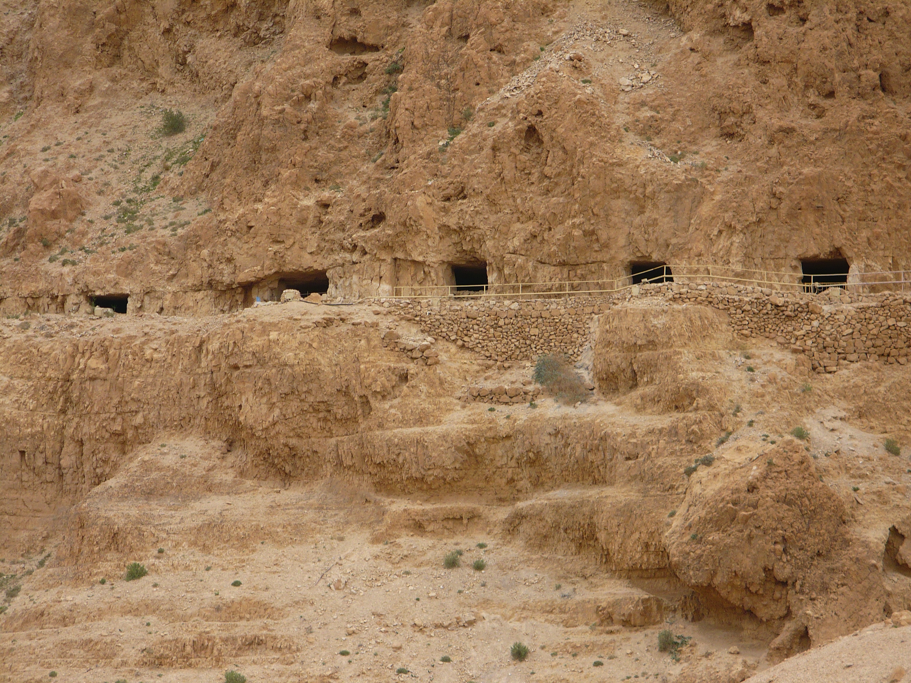 Middle row cistern